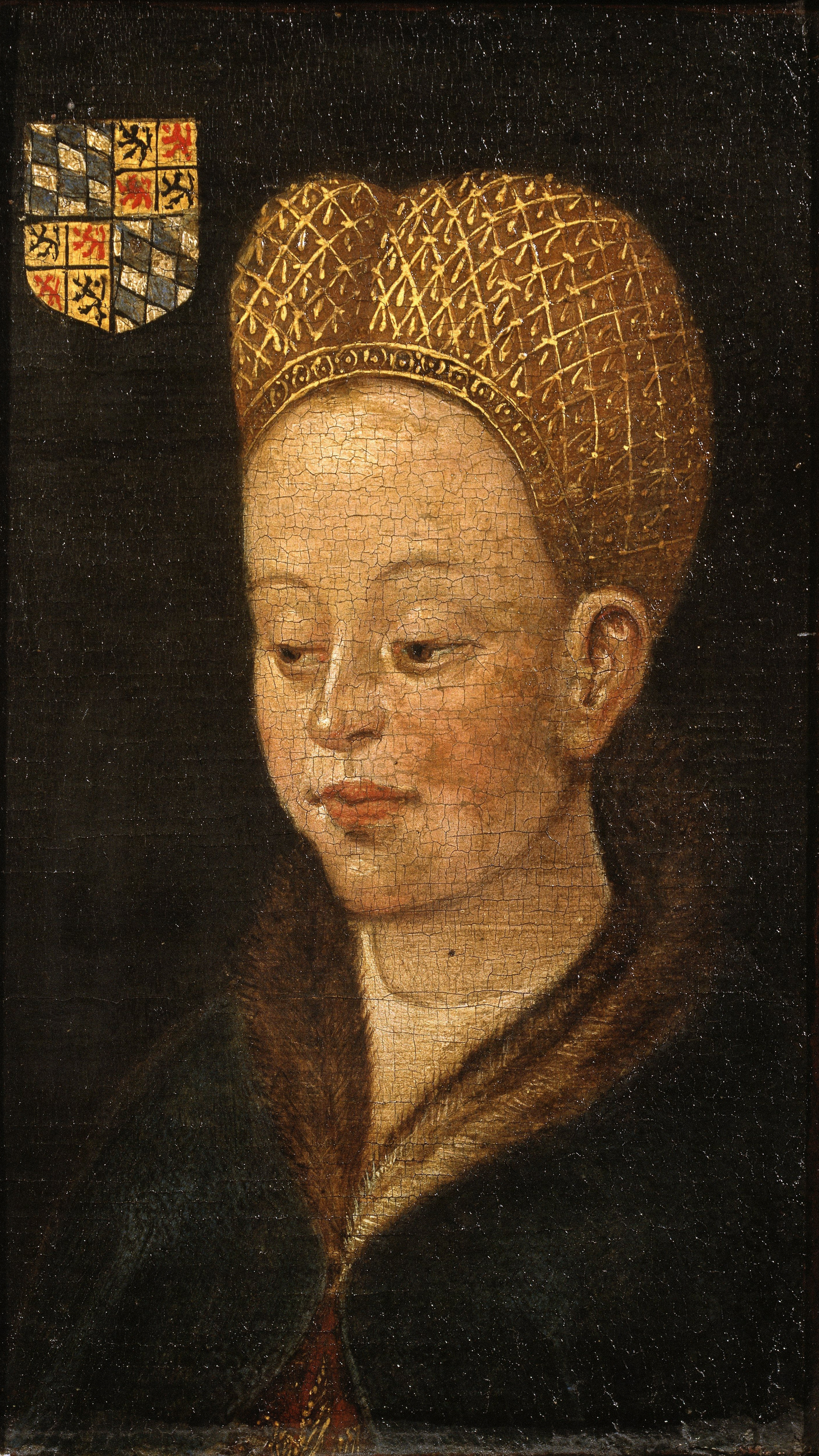 Portrait of Margaret of Bavaria